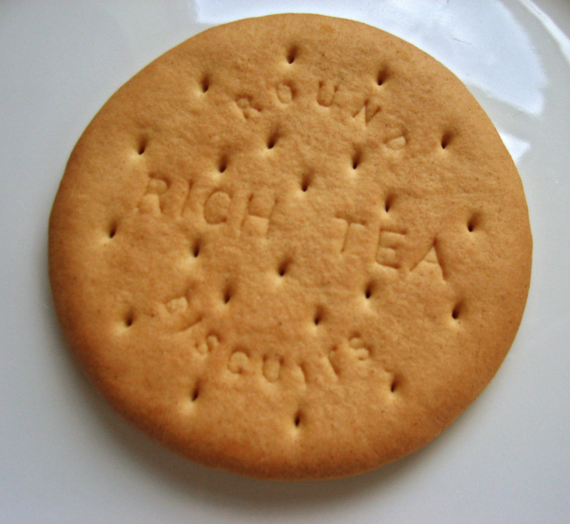 Picture of a biscuit on a white plate for enwiki-p.